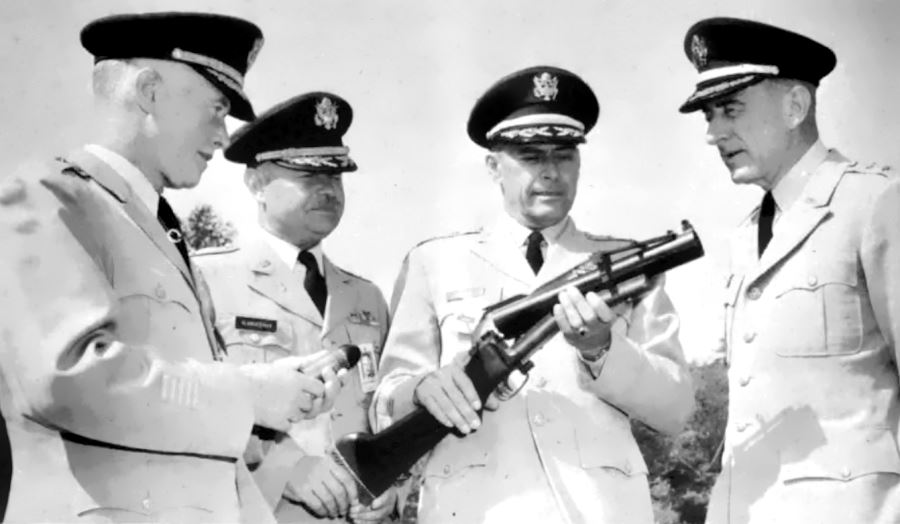 Examining recently developed 40 mm grenade launcher at Picatinny Arsenal are, left to right, Brig. Gen. William F. Ryan, Col. Russell R. Klanderman, Maj. Gen. Dwight E. Beach and Maj. Gen. William K. Ghormley.